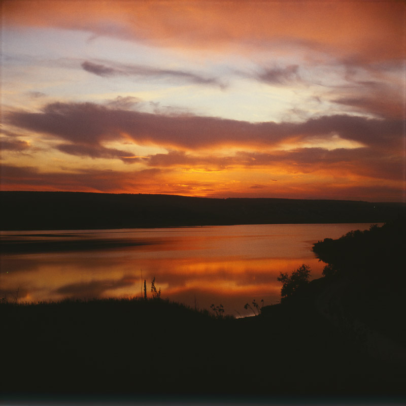 The surroundings Ialoveni district center.